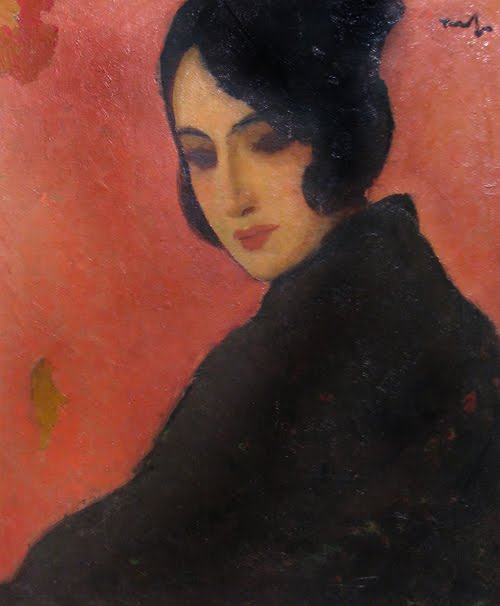 Spaniola ("The Spanish Woman"), oil on cardboard, 55 x 45 cm.